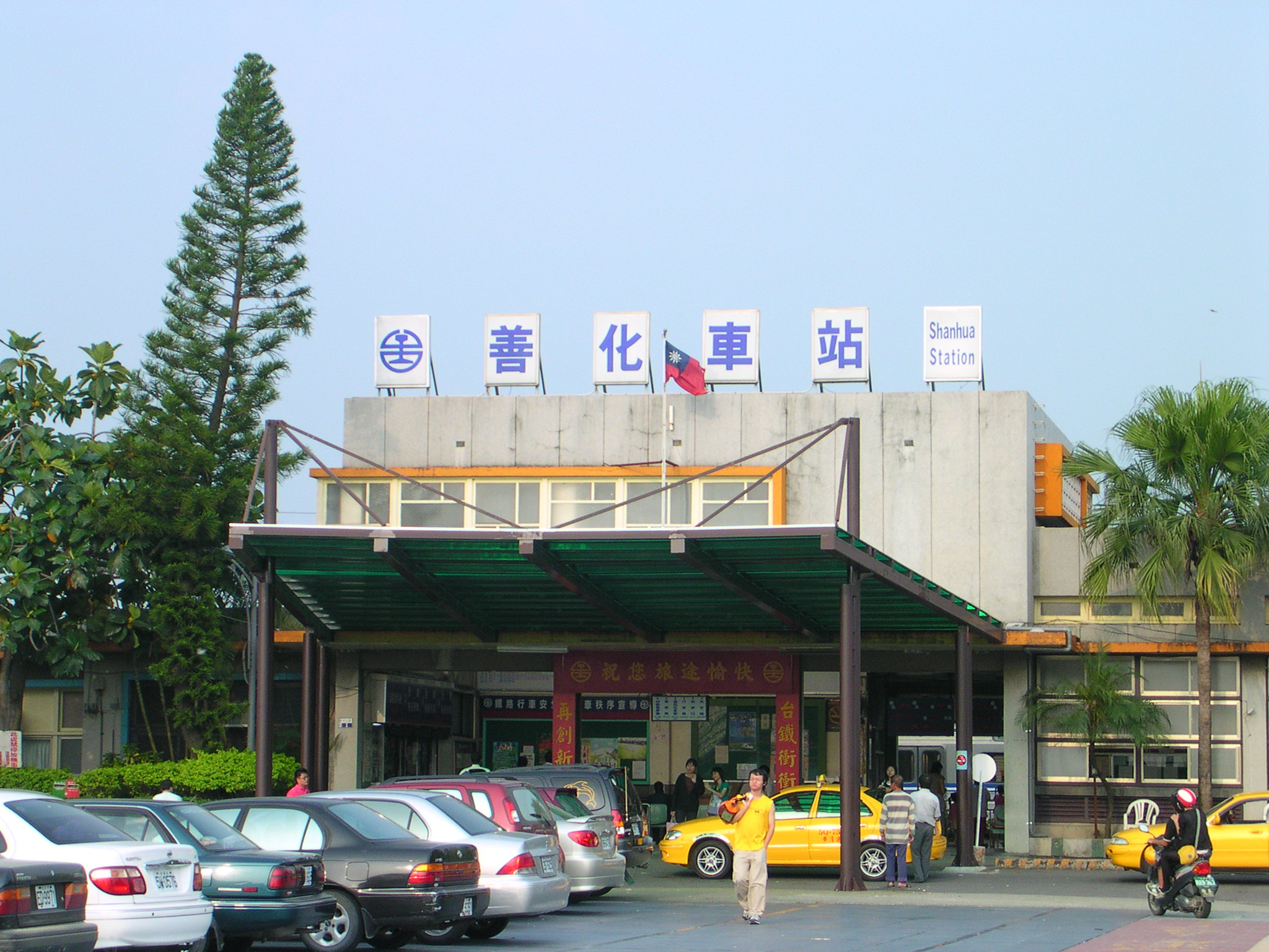 Shanhua Station, Taiwan Railways Administration.